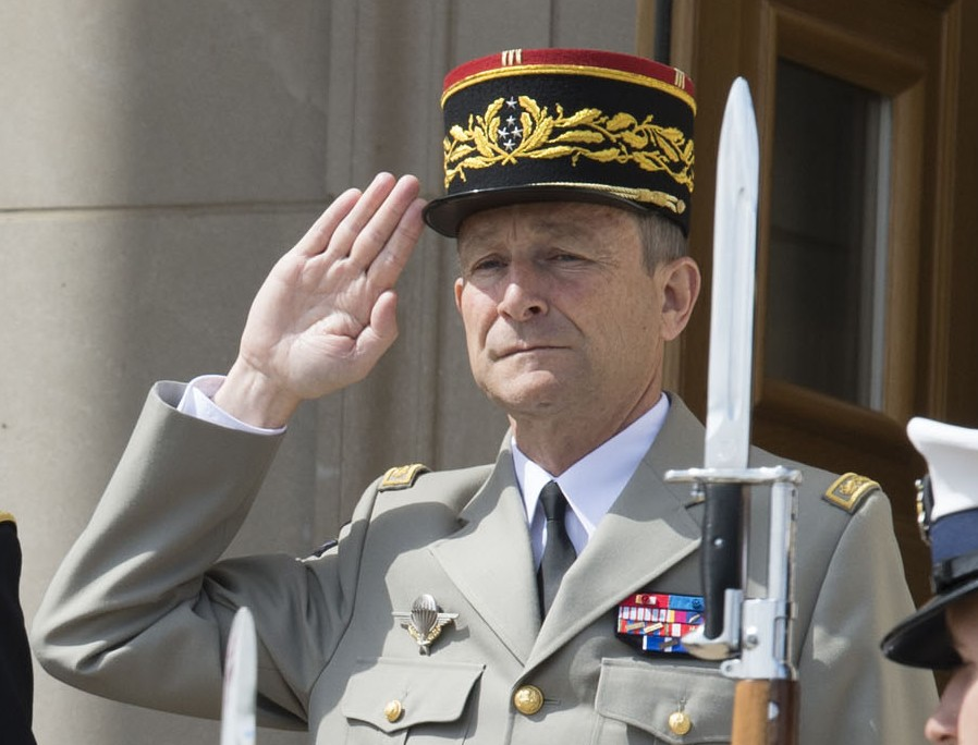 18th Chairman of the Joint Chiefs of Staff Army Gen. Martin E. Dempsey and French Chief of Defense Staff Gen. Pierre de Villiers salute in front of the Pentagon during an honor cordon in Arlington, Va., April 23, 2014 (detail)